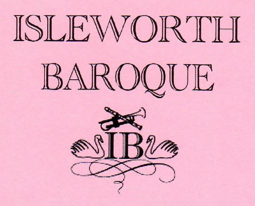 This detail of the logo used by Isleworth Baroque opera group was taken from the 2008 programme for that group's performance of Purcell's 'The Indian Queen'